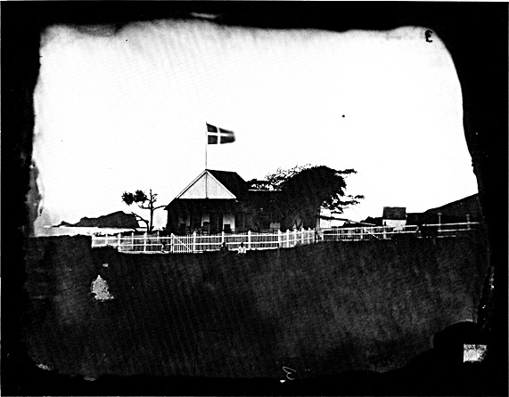 Photograph by Danish photographer Christian Hedemann of his home in Hana, Hawaii, taken in 1880. Wet plate collodion negative.